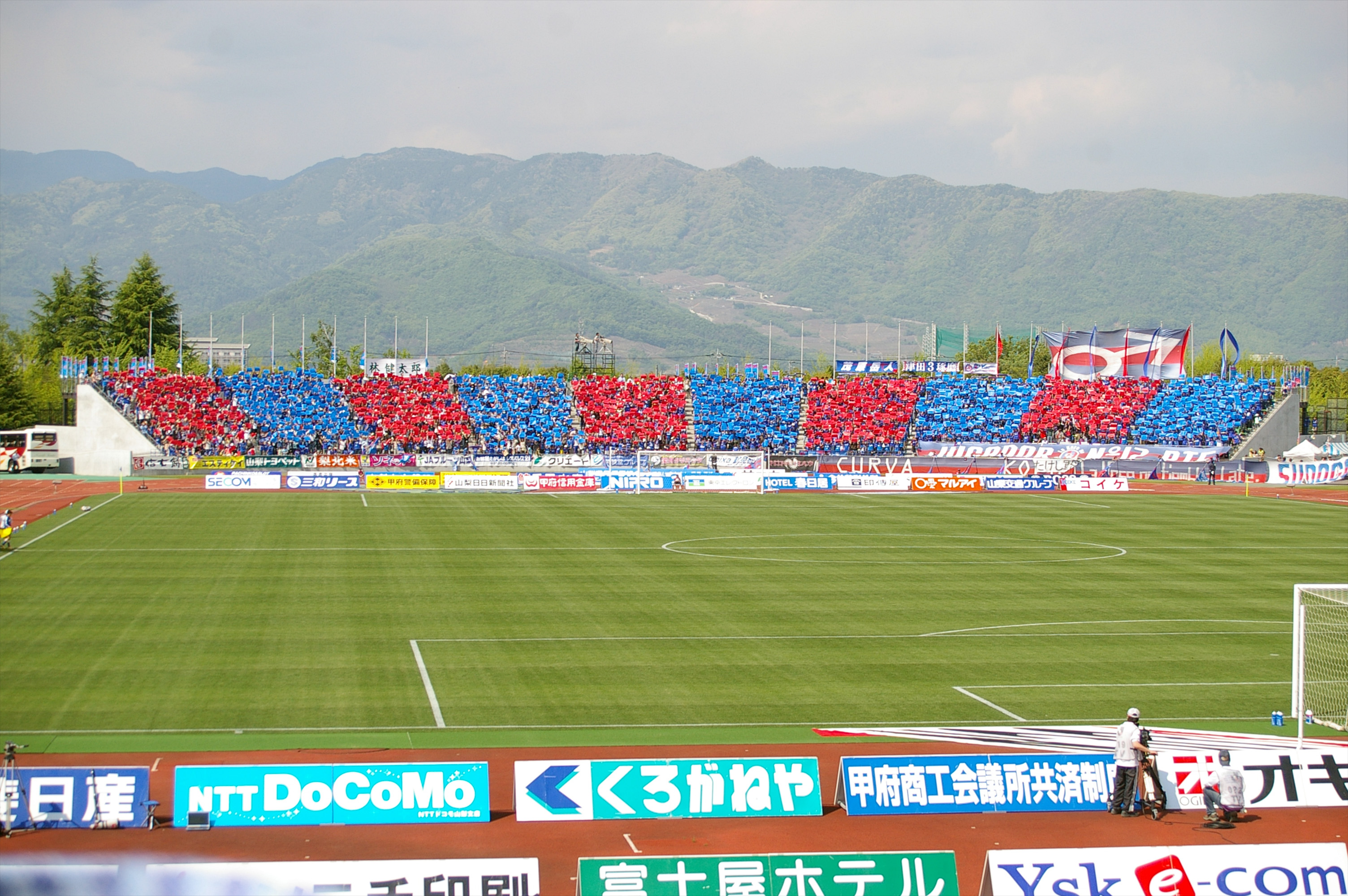 Kose Sportspark Stadium